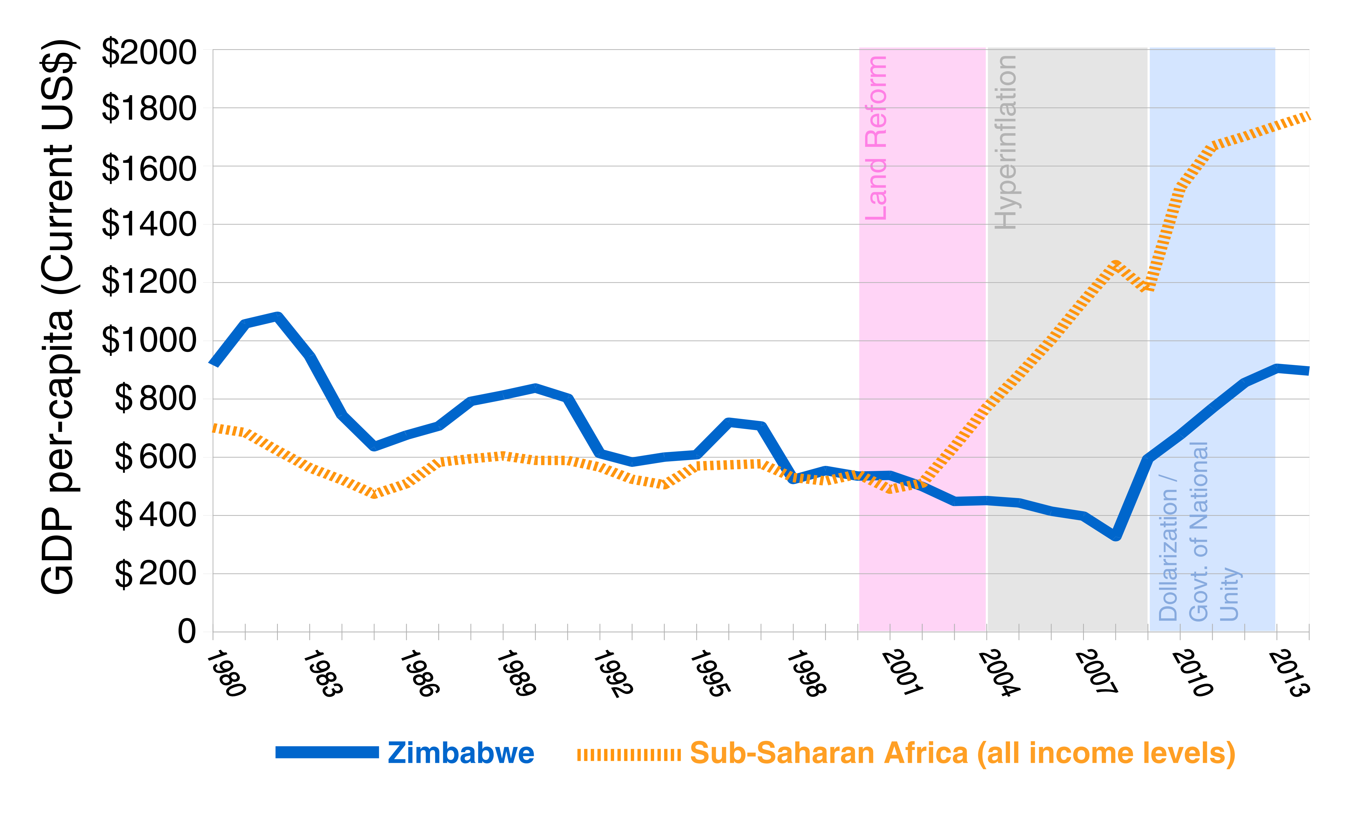 This graph illustrates the GDP per capita in current US dollars from 1980 to 2014. The graph compares Zimbabwe (blue) and all of Sub-Sarah Africa's (yellow) GDP per capita. Different periods in Zimbabwe's recent economic history such as the land reform period (pink), hyperinflation (grey), and dollarization/government of national unity period (blue) are highlighted on the graph. Made using data from the World Development Indicators, World Bank, available at